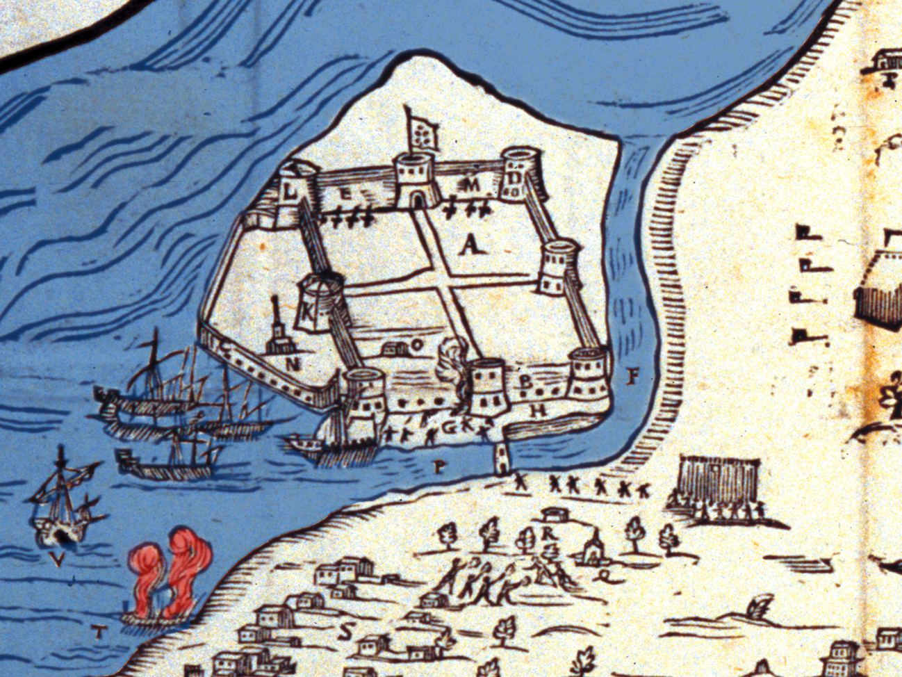 Plan of the Castle of Bouka, Preveza, attacked by the knights of St. Stephen of Tuscany. Wood engraving by Giovanni Orlandi, 1605. Nikos D. Karabelas map collection, Actia Nicopolis Foundation, Preveza, Greece.